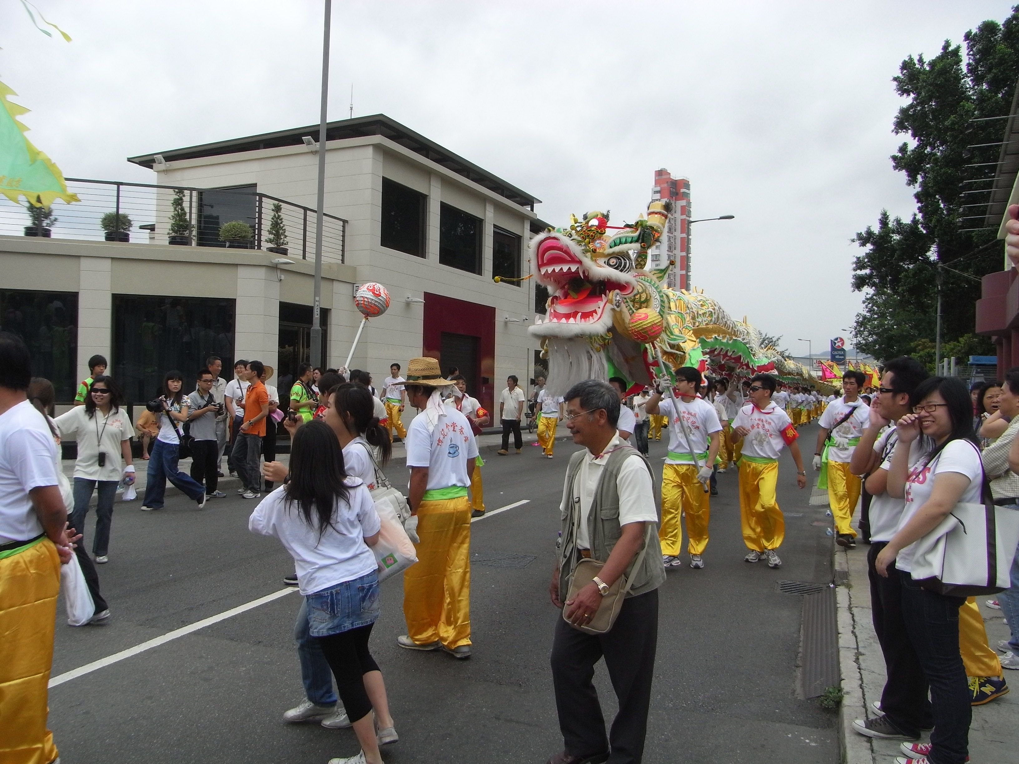 Dragon dance, the Parade of Heaven Goddess Festival in Yuen Long, Hong Kong